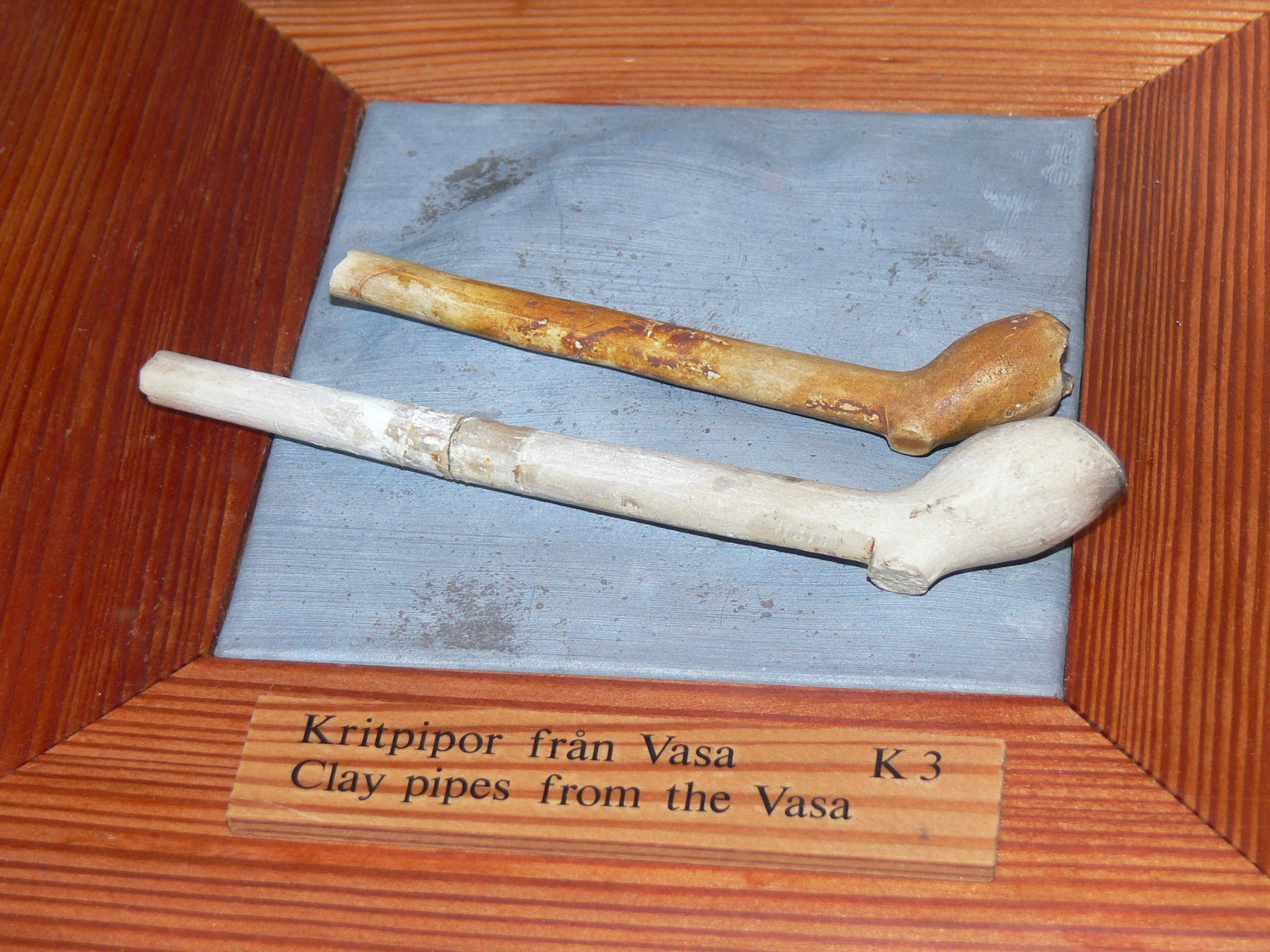 Vasa Museum. Clay pipes.